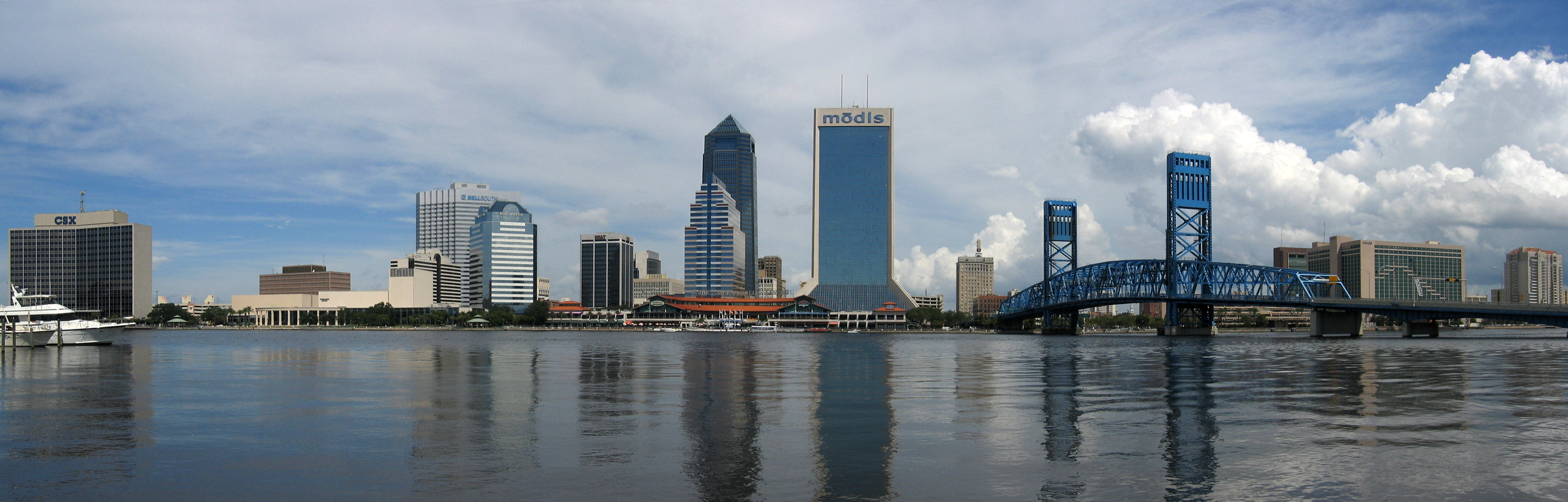 Panorama of the Jacksonville city skyline from across the St. Johns river in Jacksonville, Florida, USA. Jacksonville is the largest city in land area in the United States